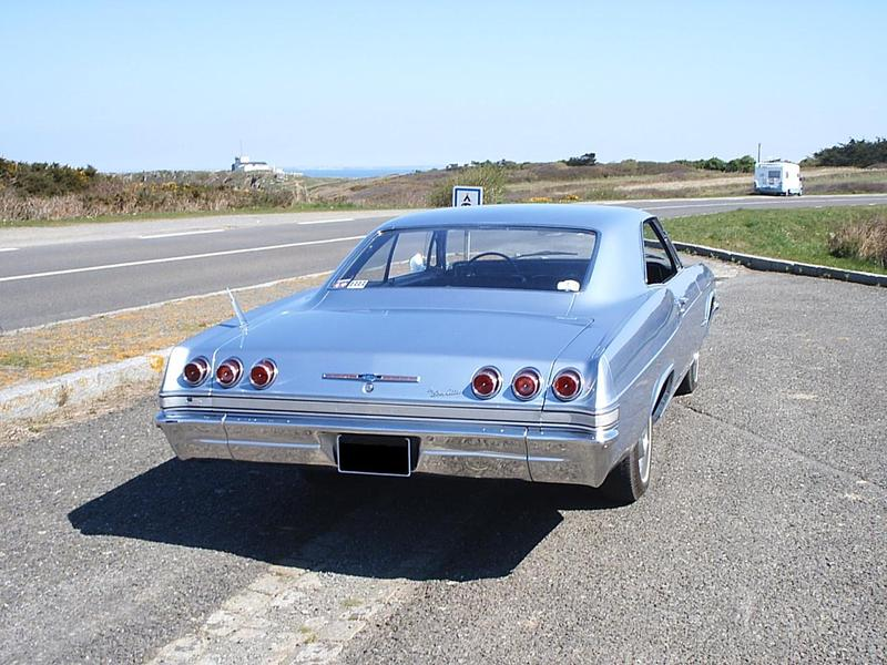 1965 Chevrolet Impala Hardtop Coupe